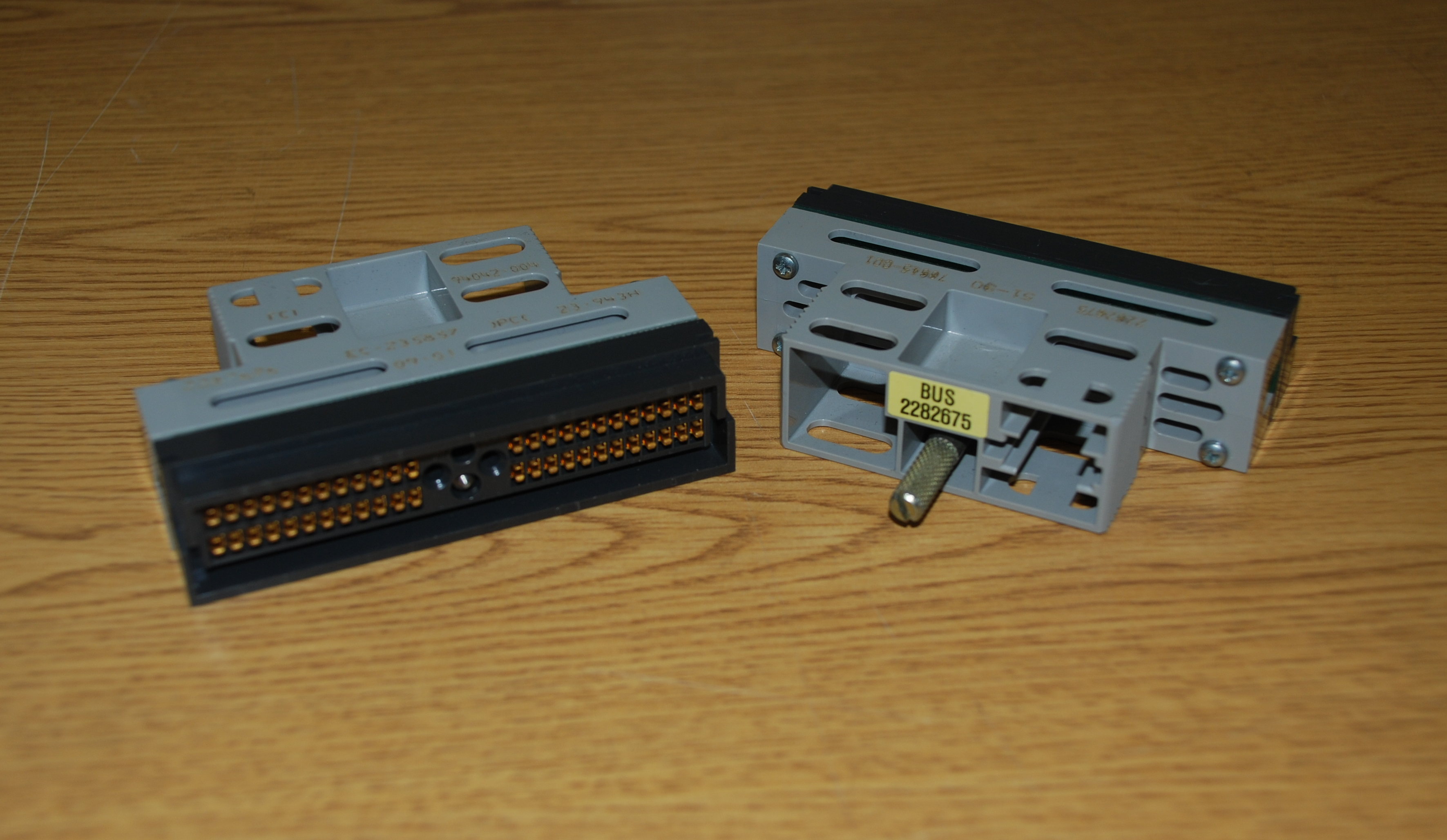 Typical "bus & tag" terminators